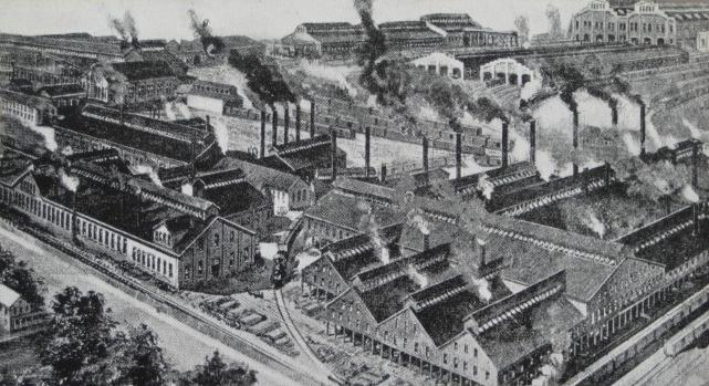 The American Car & Foundry Company steel car plant, Berwick, Pennsylvania. Before merging with 13 other car manufacturers in 1899, this was the Jackson & Woodin Manufacturing Company.